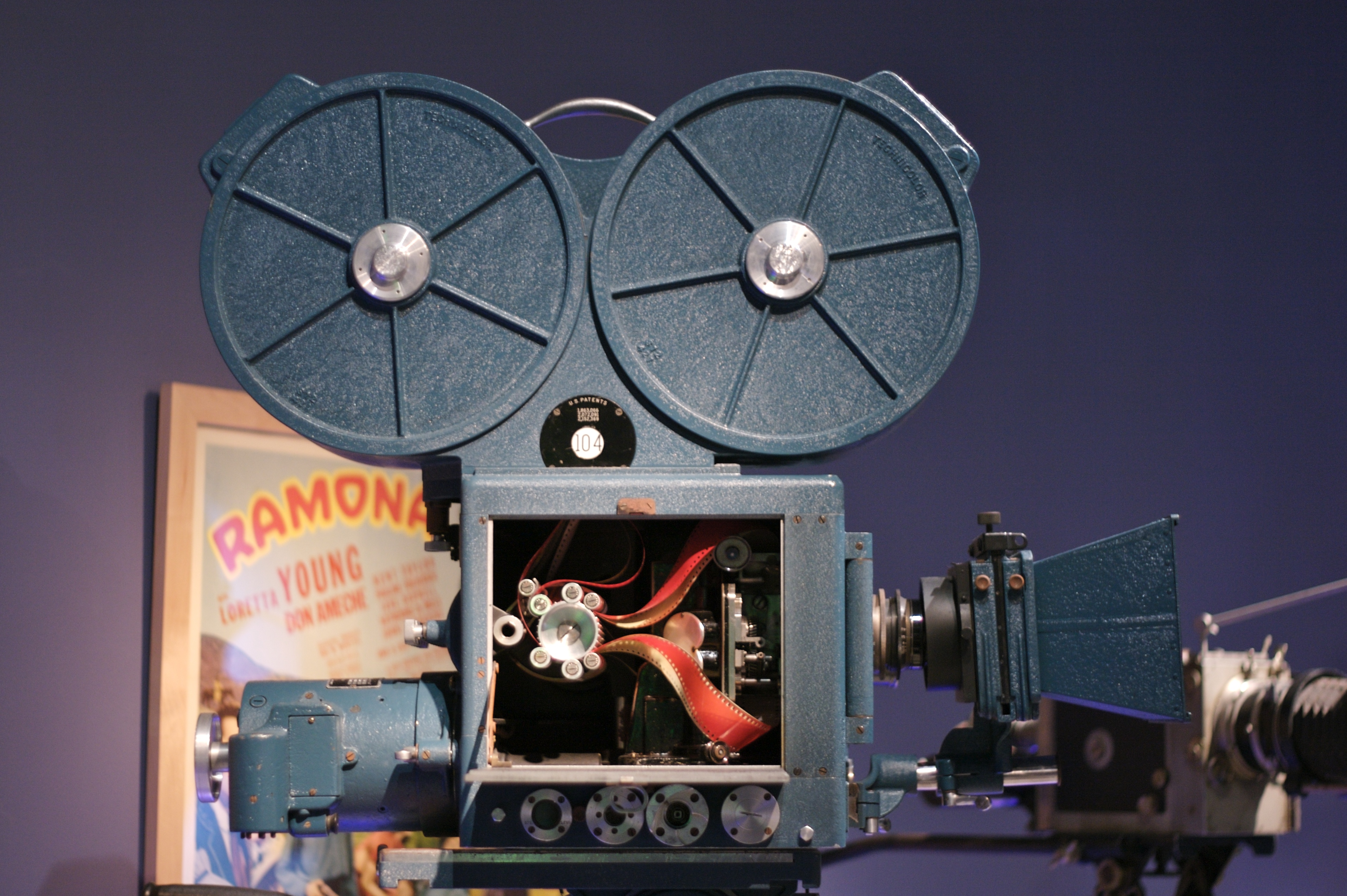 A 3-strip Technicolor camera from the 1930s. Two strips of 35 mm black and white film negative, one sensitive to blue light and the other to red light, ran together through an aperture behind a magenta filter, which allowed blue and red light to pass through. A third film strip of black and white film negative ran through a separate aperture, behind a green filter. The two apertures were positioned at 90 degrees to each other, and a gold-flecked mirror positioned at 45 degrees behind the lens allowed 1/3 of the incoming light to go directly through to the green-filtered aperture, and reflected the remaining light to the magenta-filtered aperture. Because of this division of light between three film strips, Technicolor photography required much more lighting than black and white photography. The camera is seen here without its sound-proofing "blimp" cover, which doubled its size. Photo taken at the Museum of the Moving Image, in Astoria, Queens, New York.